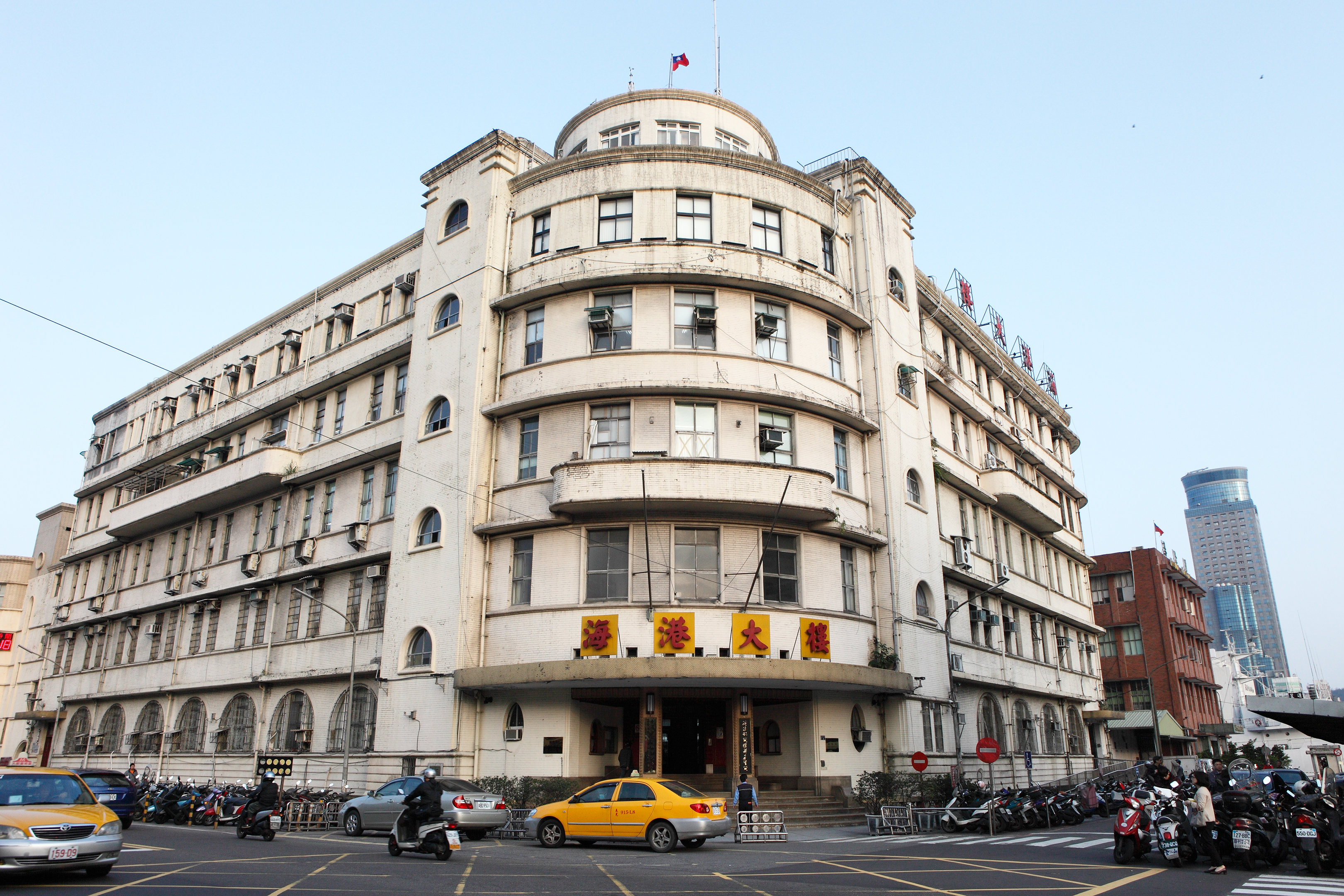 Keelung Harbor Integrated Administration Building